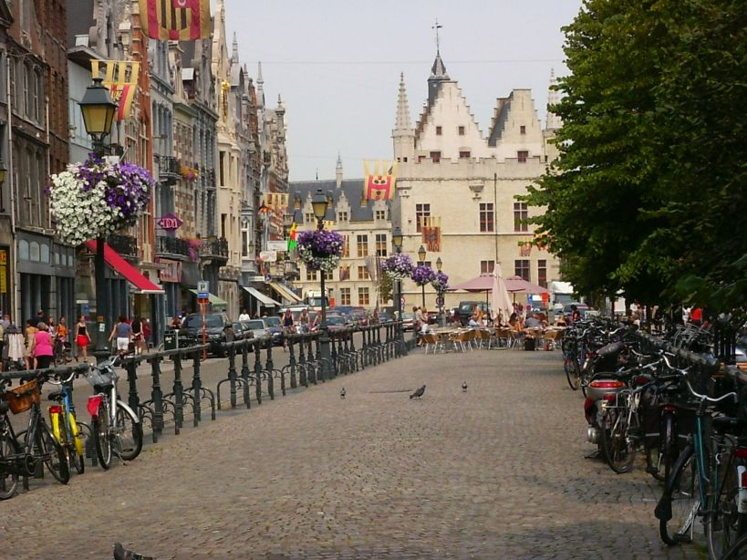 IJzerenleen (iron railing) - famous shopping street in Mechelen